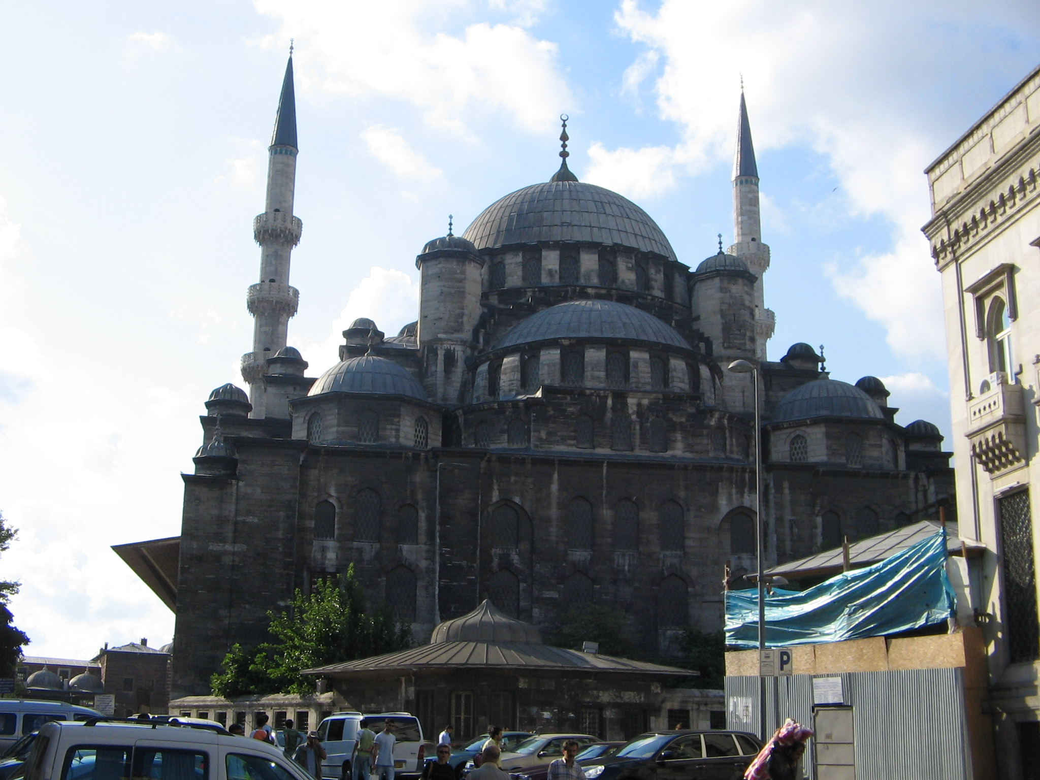 the eminonu yeni mosque in istanbul, back side